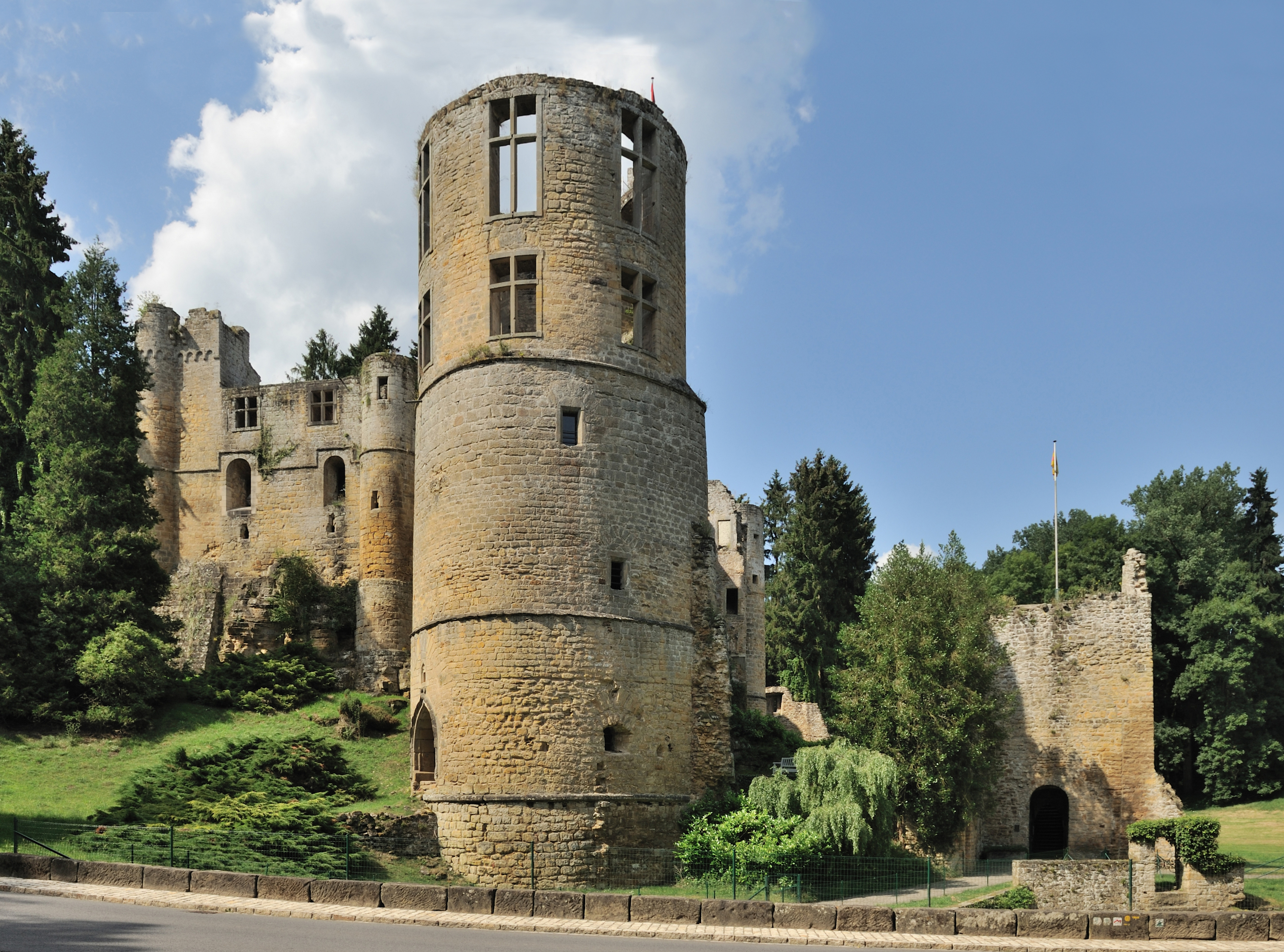 Beaufort, Luxembourg, Mullerthal region (Luxembourg's Little Switzerland): Medieval Castle ruins.